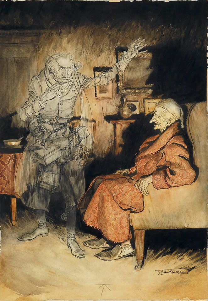 Scrooge and the Ghost of Marley by Arthur Rackham, pen, ink and watercolor, from Dickens's A Christmas Carol, 1915